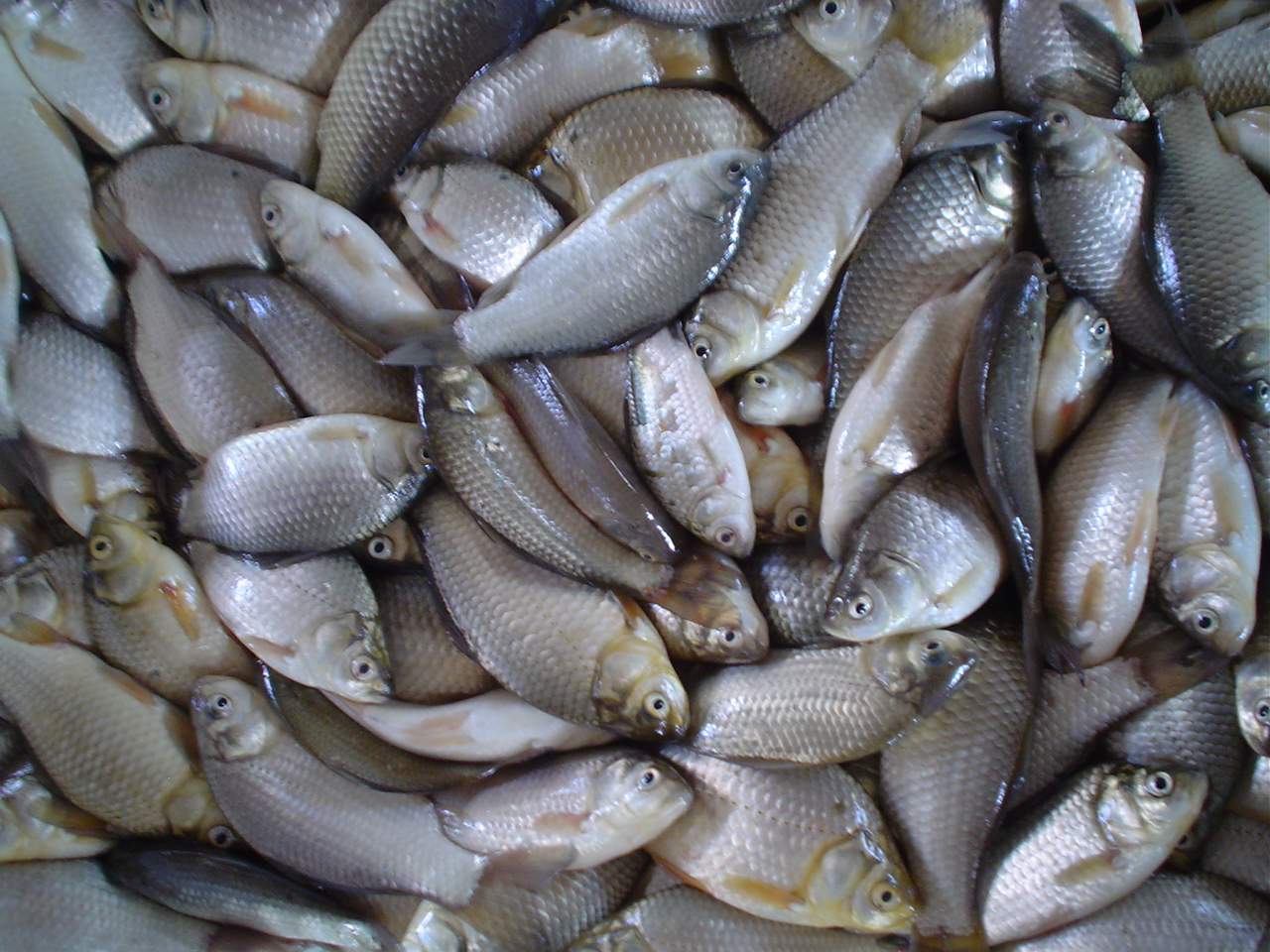 Prussian Carp, Carassius auratus gibelio. Odessa Ukraine bazaar